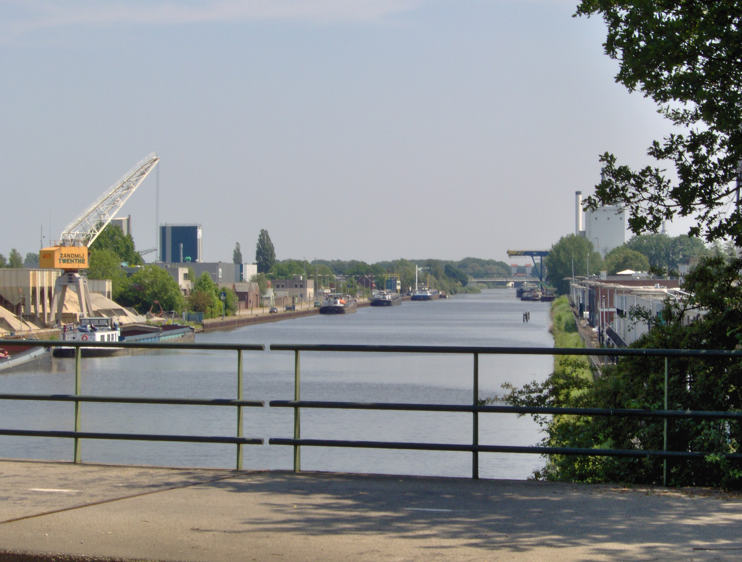 View on the Twentekanaal near Hengelo, Netherlands. Photo taken standing on the Oelerbrug.